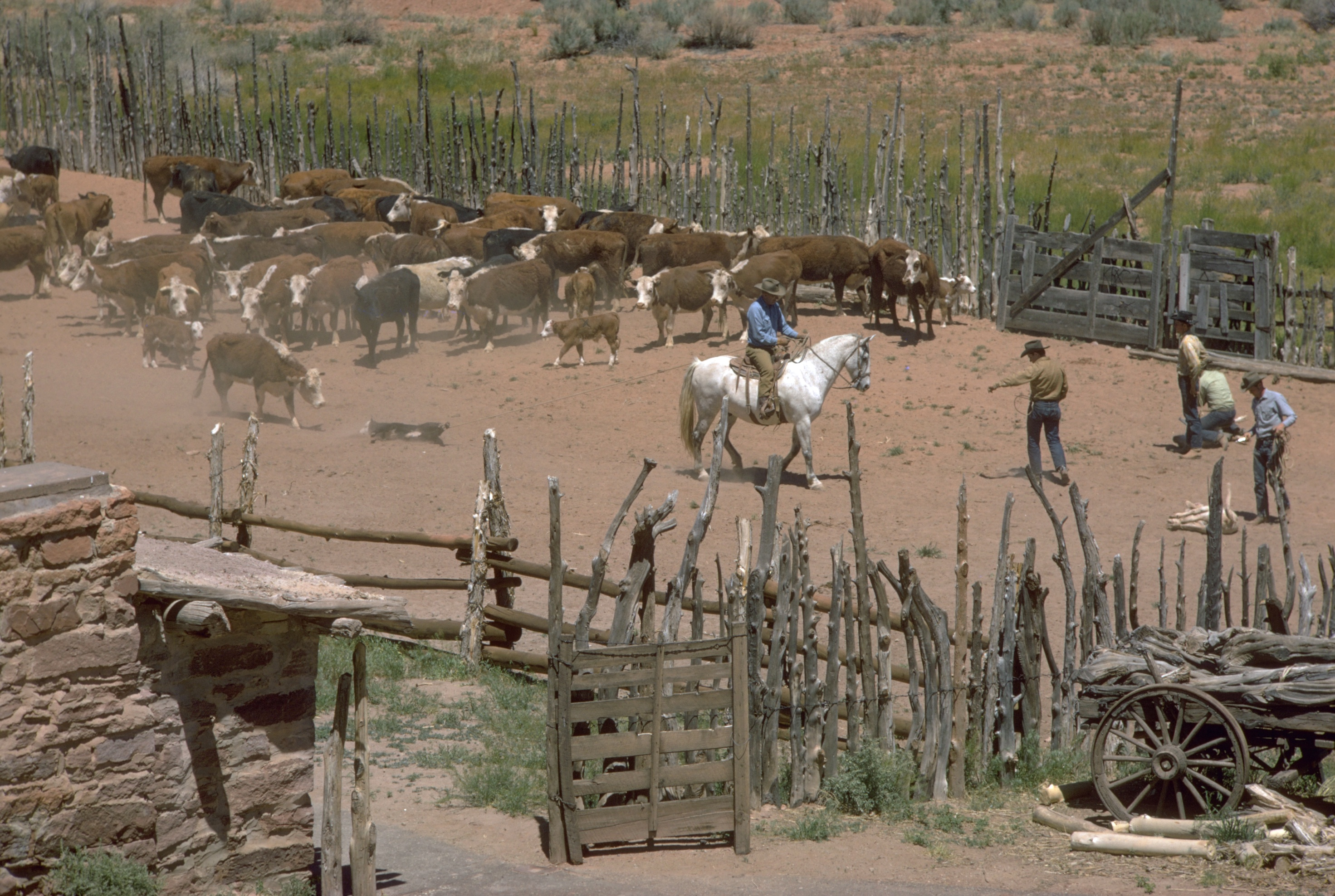 Pipe Spring National Monument, Arizona, USA. Cattle roundup in the Monument